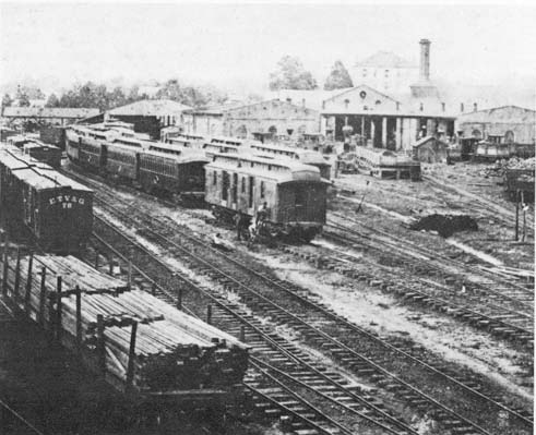 Memphis and Charleston Rail Yard after the American Civil War 1885